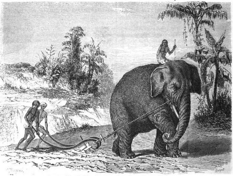 A work elephant in Ceylan.